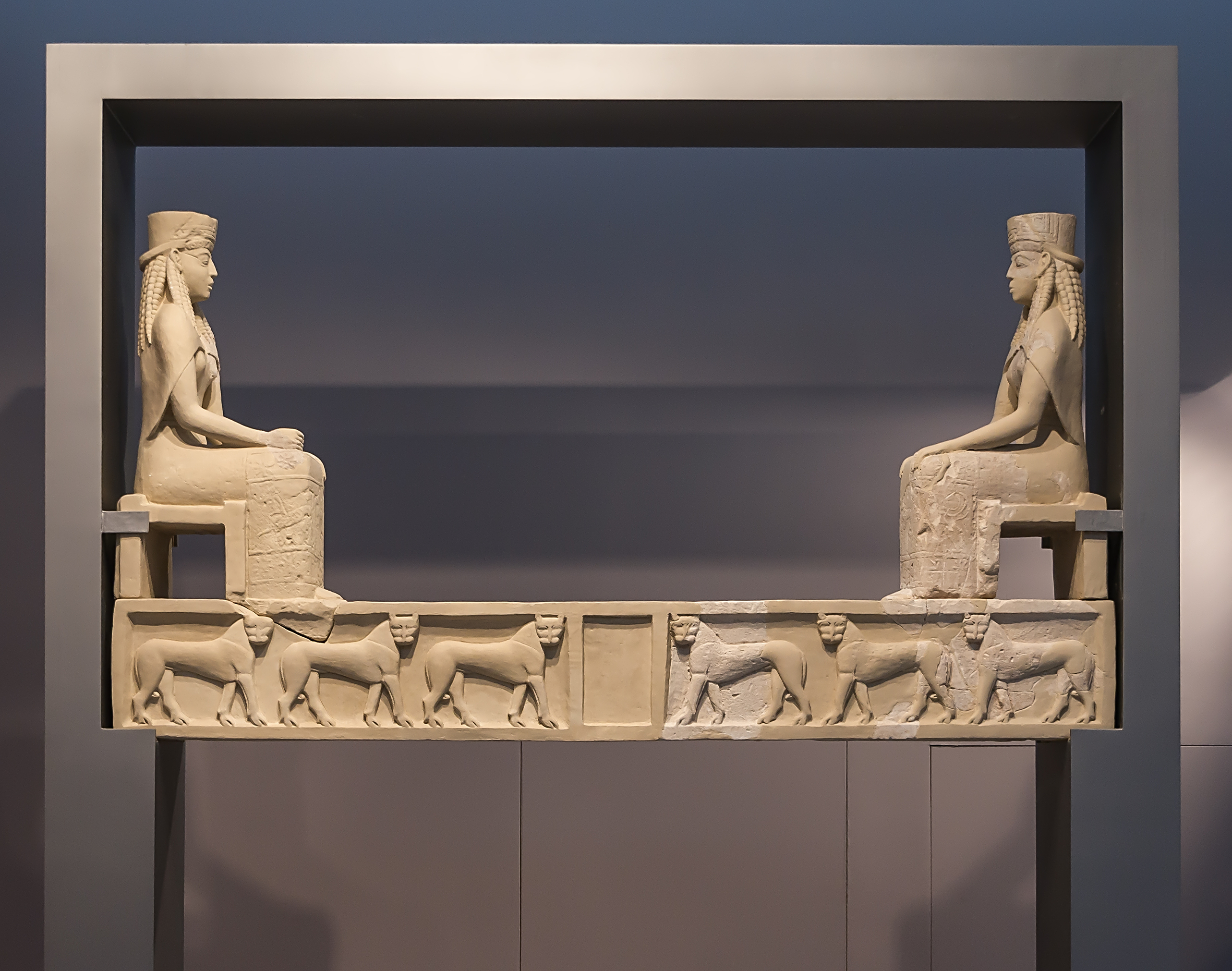 Lintel from the main entrance to Temple A at Prinias, sculptures of the Daedalic period, 650-600 BC. Archaeological Museum of Herakleion, NM 231